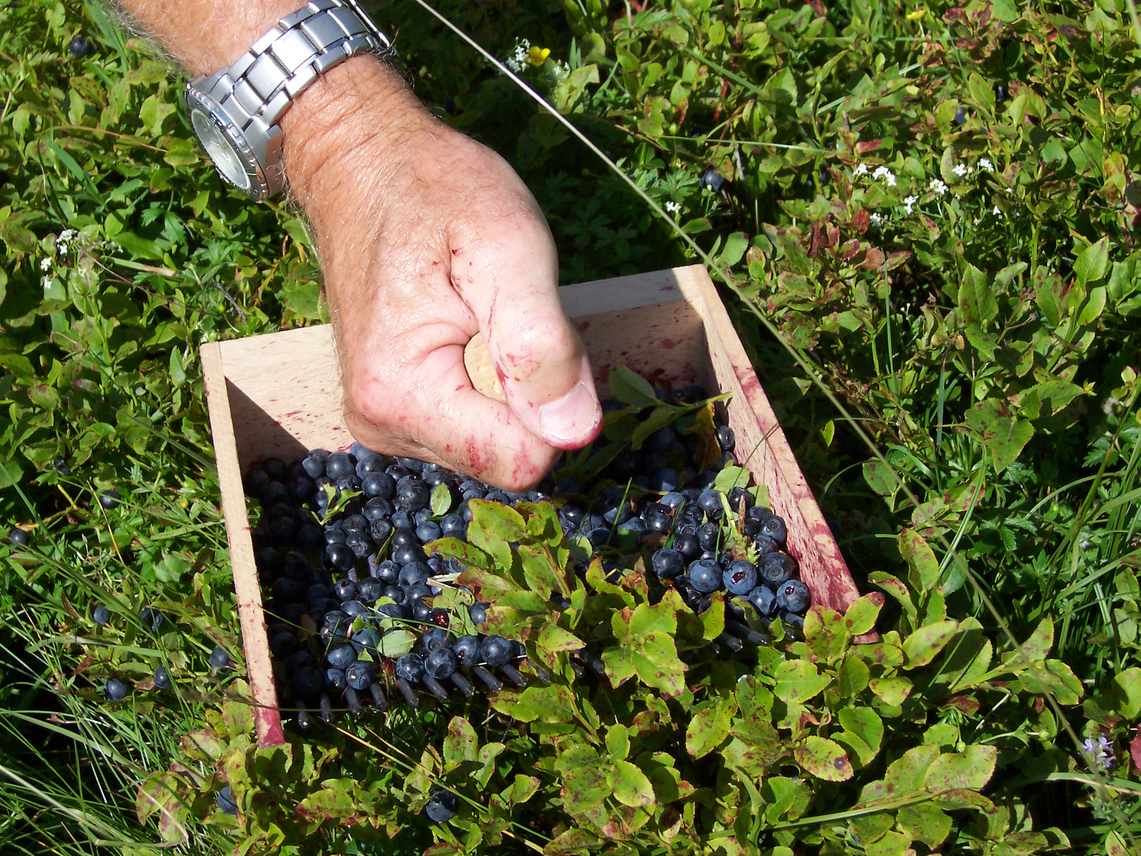 Harvesting bilberries (Vaccinium myrtillus) with a special comb in the Monts du Cantal range (France)